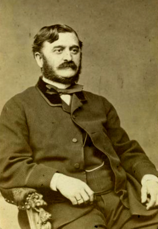 Mocsonyi András (Andrei Mocioni de Foeni) as a Romanian deputy to the Diet of Hungary.